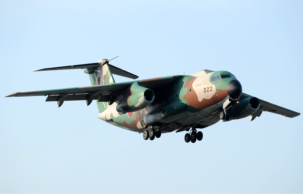 Japan Air Self-Defence Force Kawasaki C-1